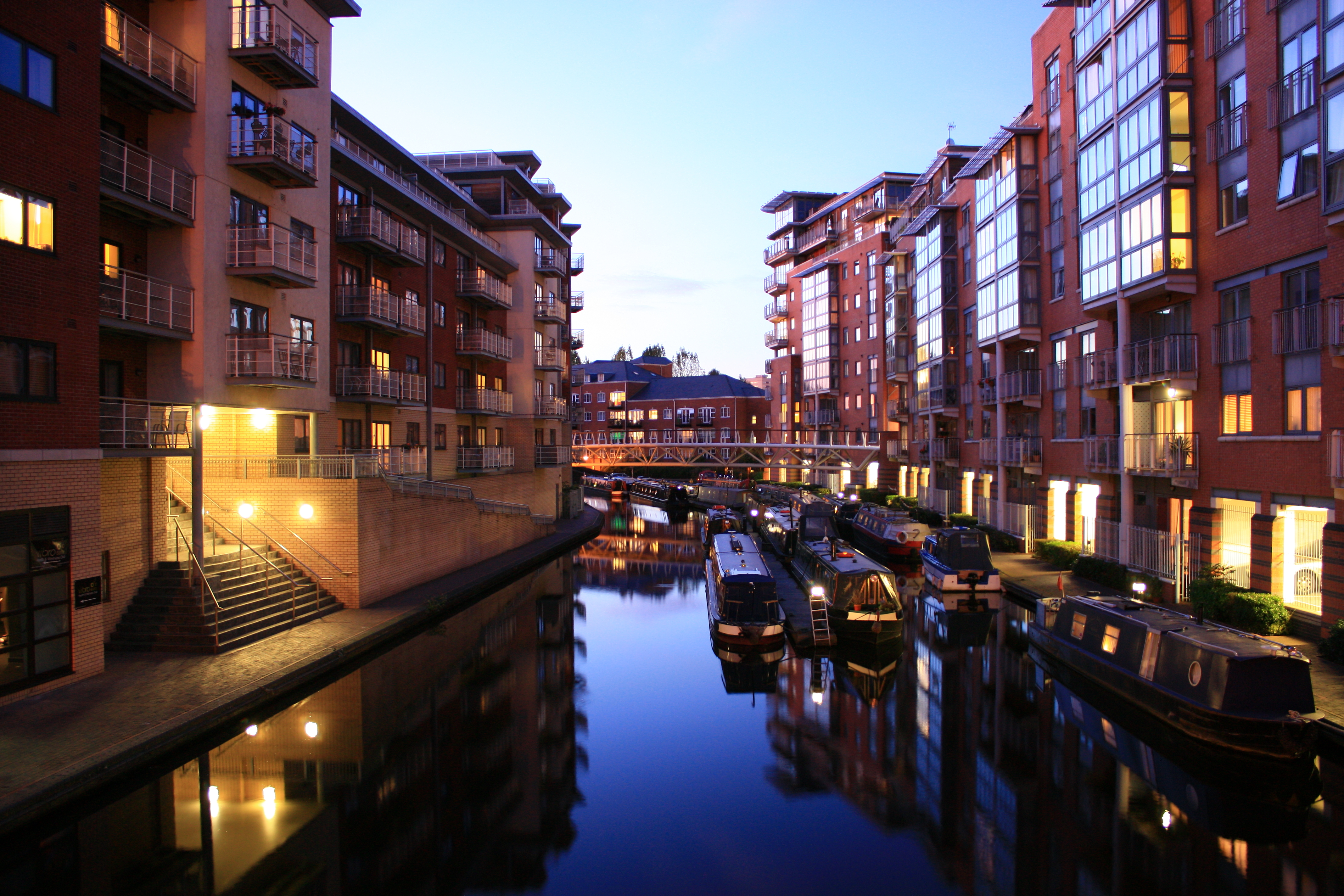 Canalside apartments at King Edward's Wharf, Birmingham.